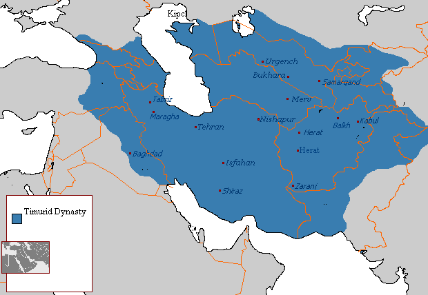 Map of Timurid dynasty (1370-1506)